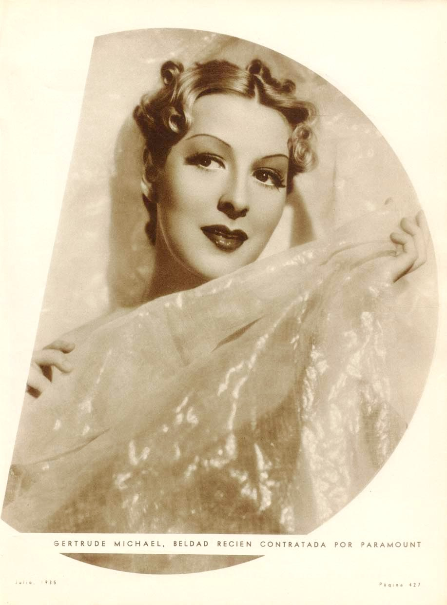 Publicity photo of Gertrude Michael for Argentinean Magazine. (Printed in USA)